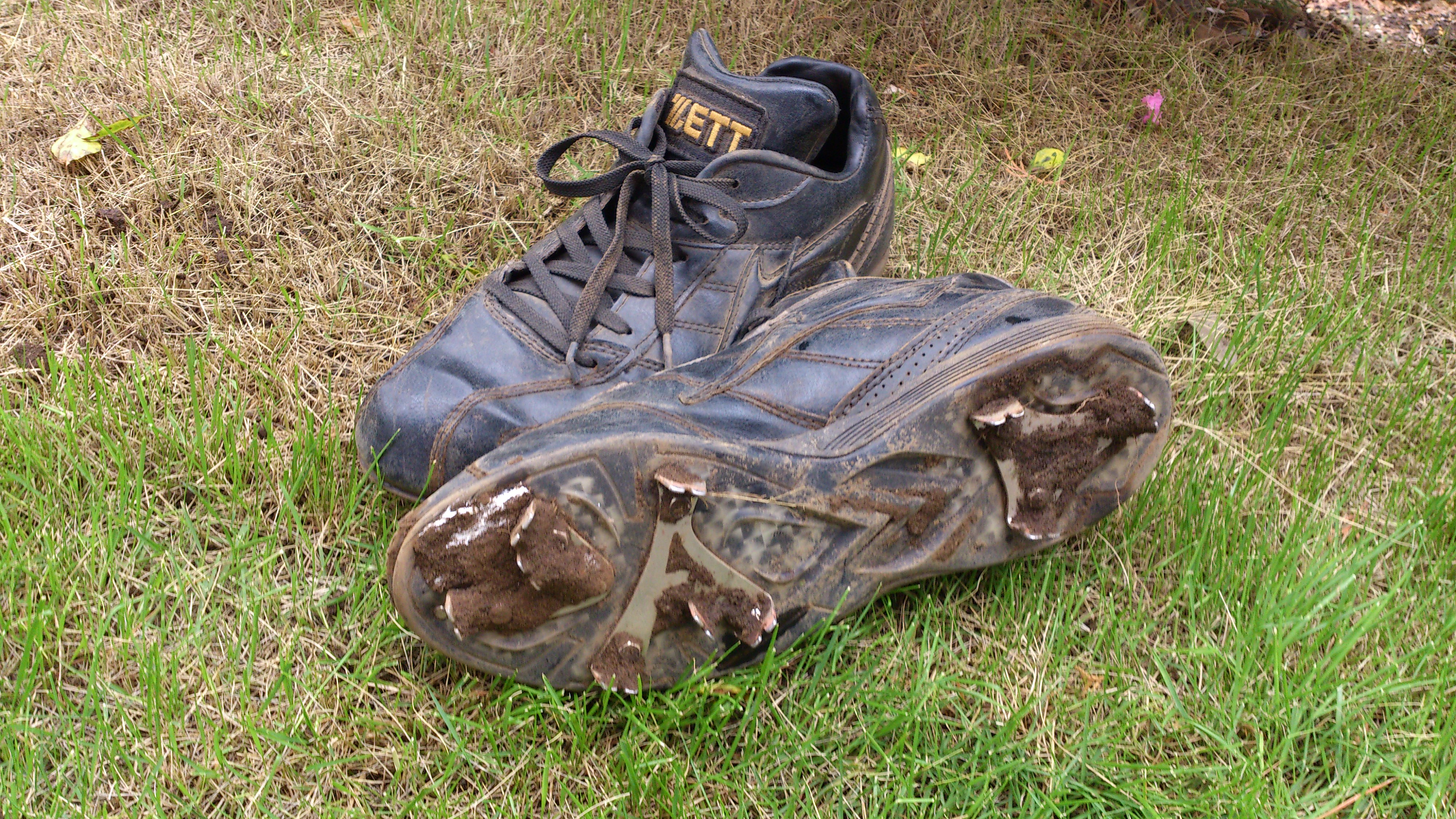 Baseball spike